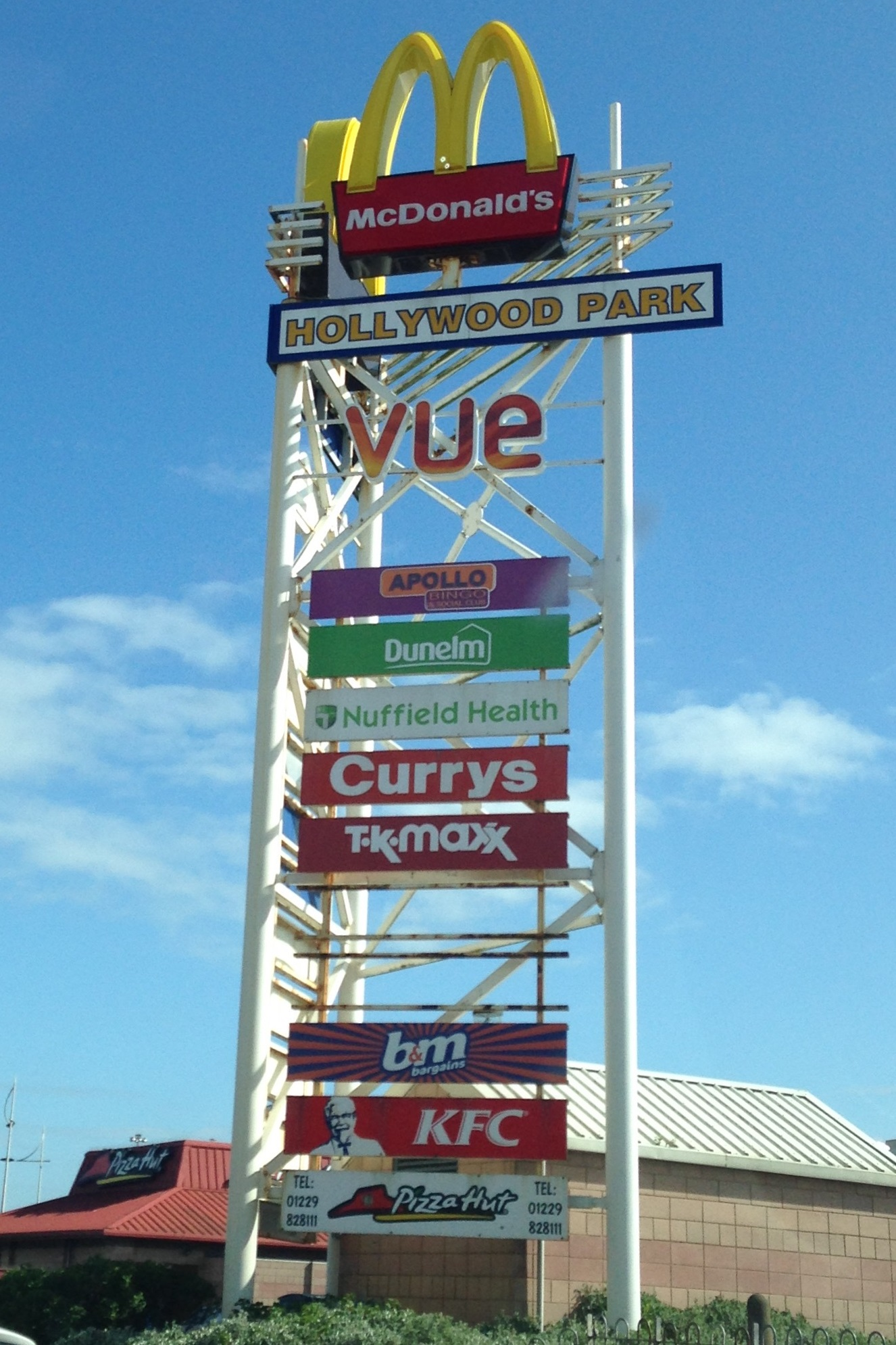 Sign marking entrance to Hollywood Park in Barrow-in-Furness, Cumbria, England.